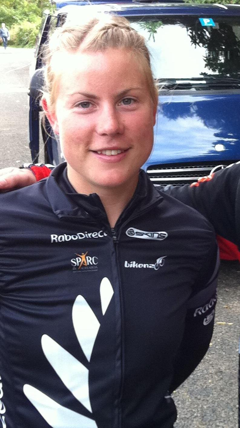 2012 UCI Road World Championships Valkenburg - Women's elite time trial